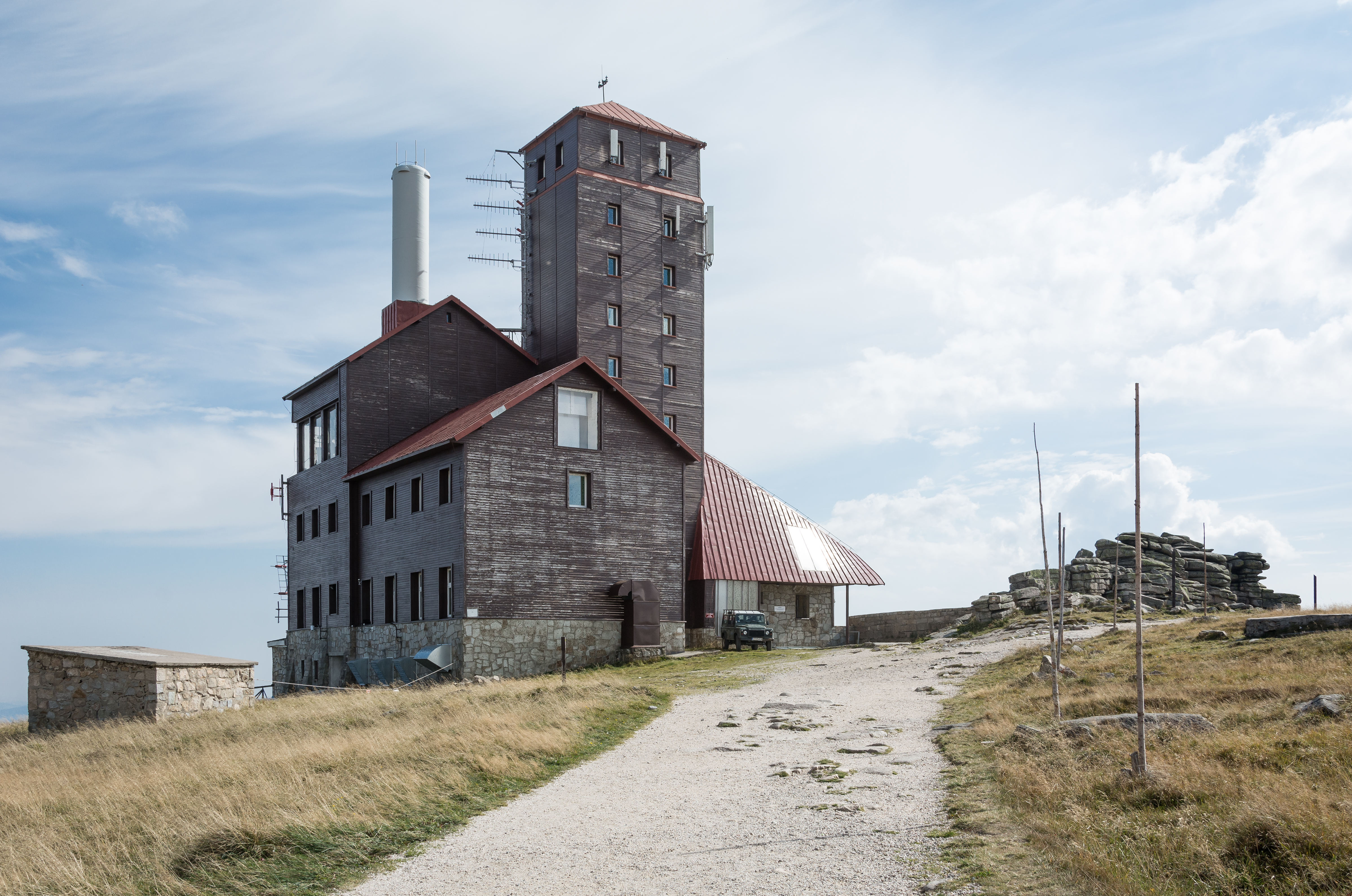 Radio and Television Broadcasting Center Śnieżne Kotły